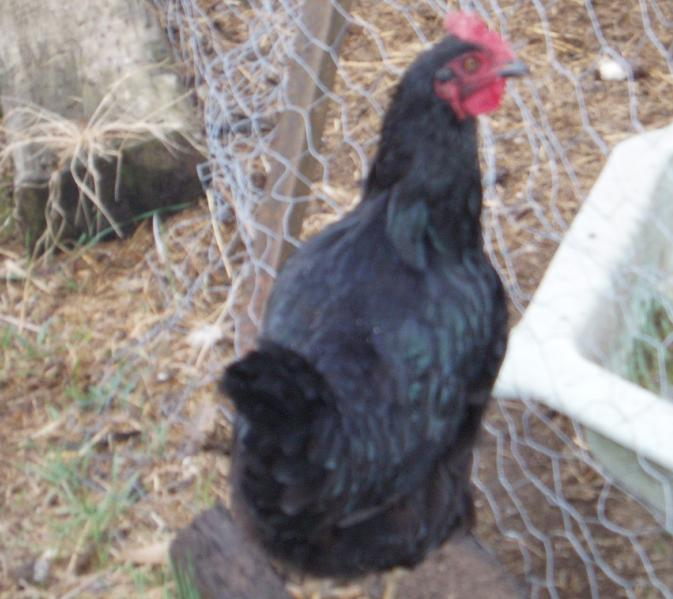 Australorp Chicken.